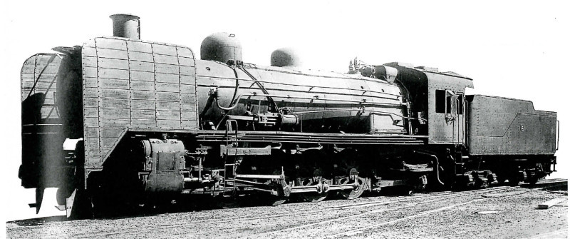 Builder's photo of a Kawasaki-built Mateni-class locomotive of the Chosen Government Railway, taken in 1943.